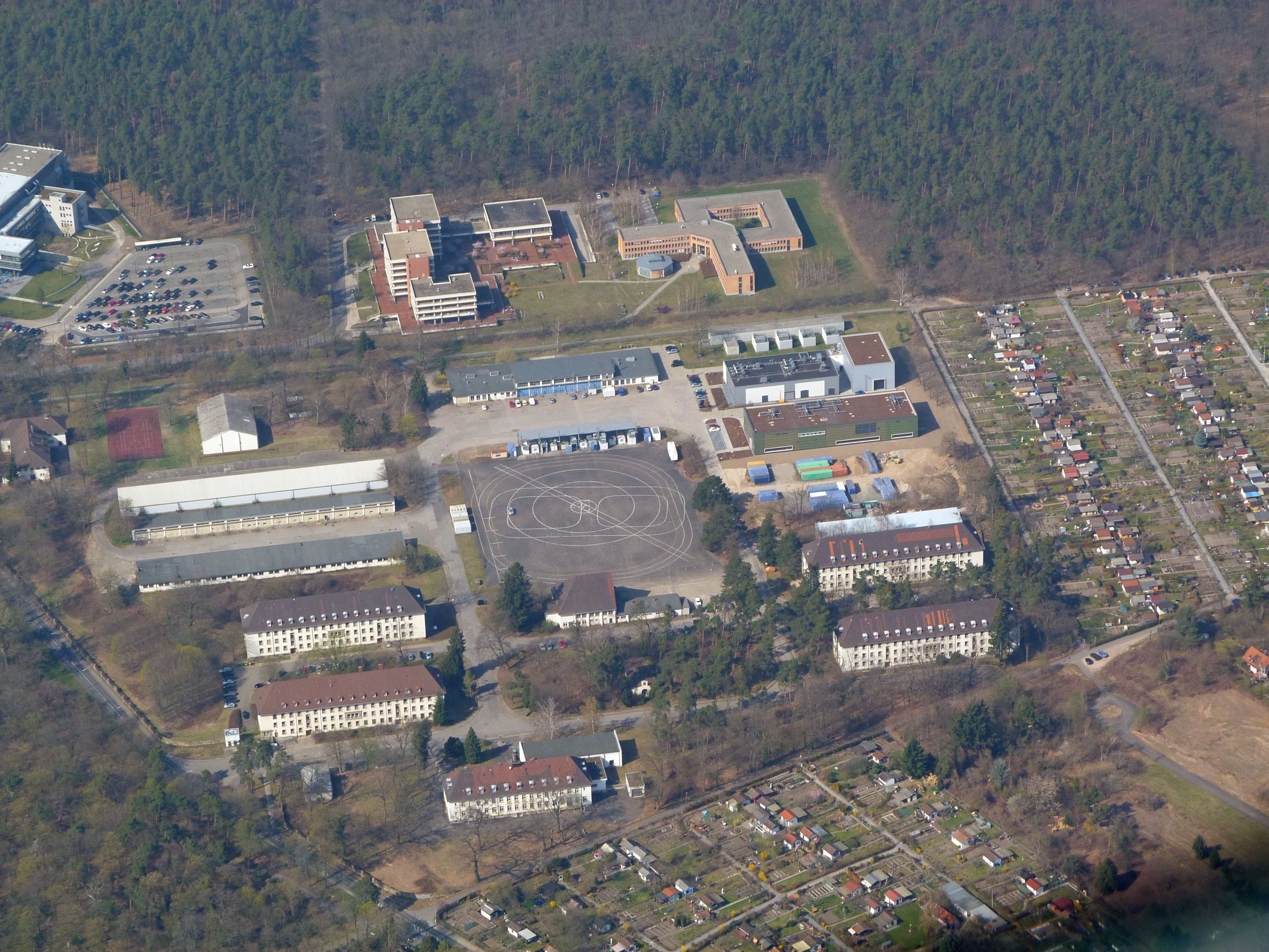 View on the Mackensen barracks from the South, nowadays a part of the campus of the Karlsruhe Institute of Technology